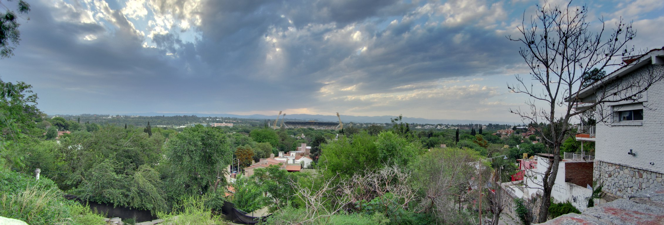 View from the gazebo of neighbourhood Cerro de las Rosas